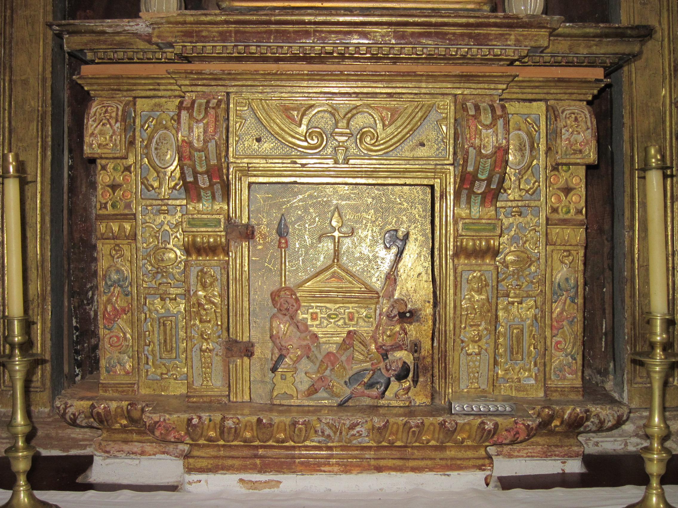 Tabernacle of the Church of Nuestra Señora de la Asunción in Villamelendro de Valdavia.